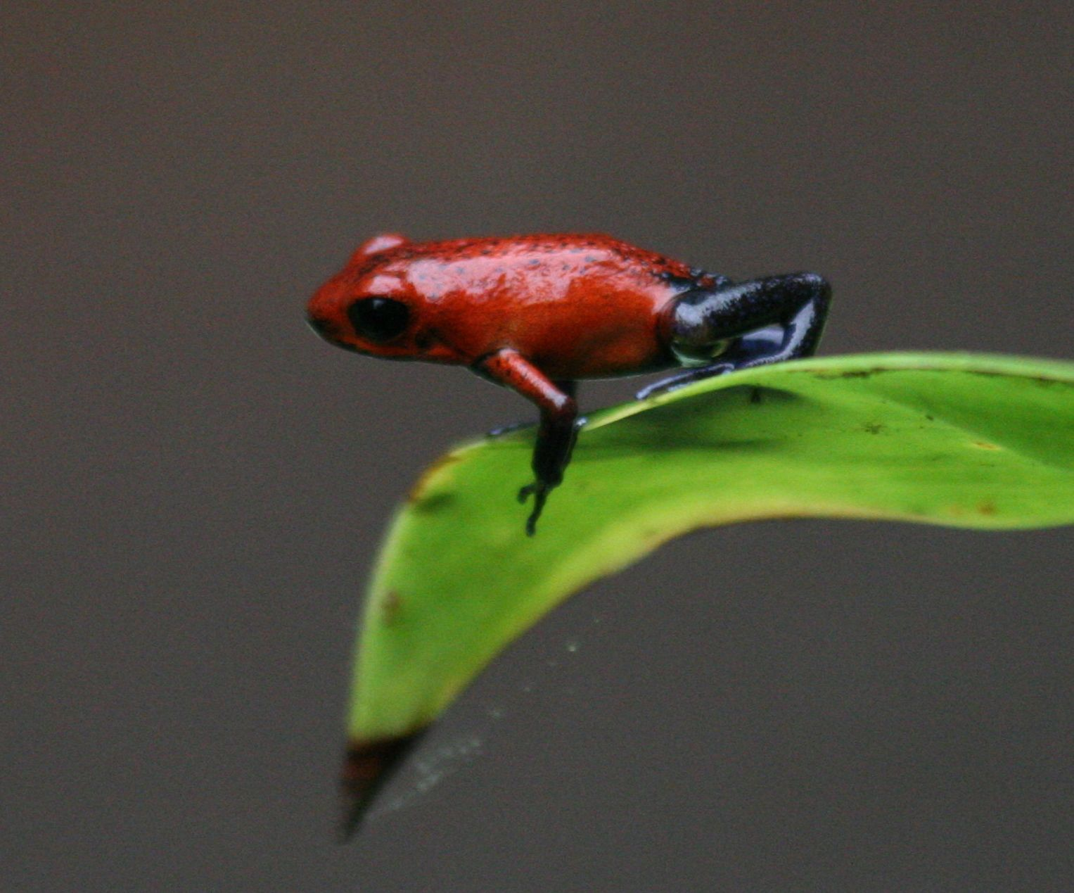 Strawberry poison dart frog from Costa Rica.